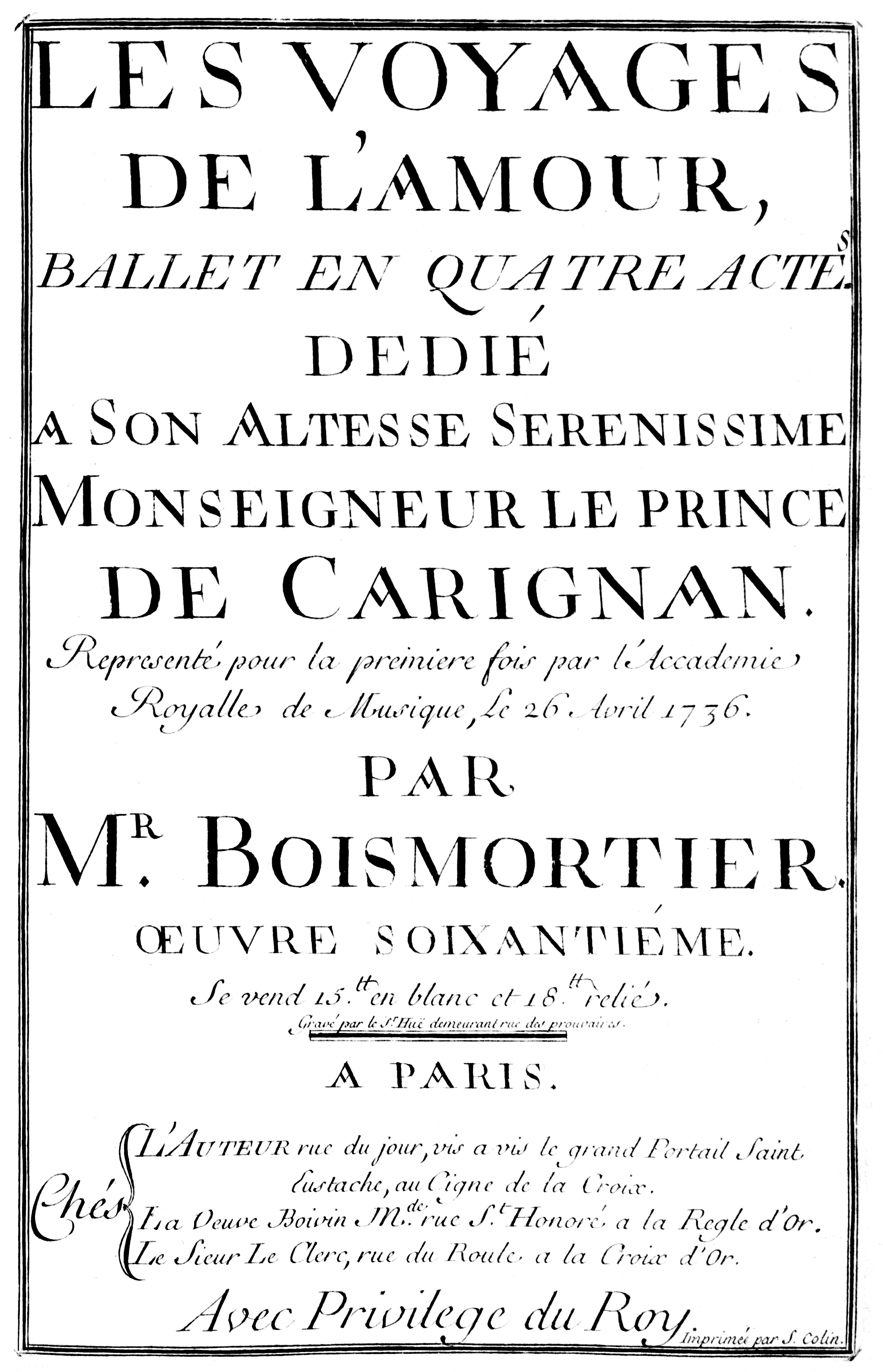 Joseph Bodin de Boismortier - Les Voyages de l'Amour - title page of the score, Paris 1736